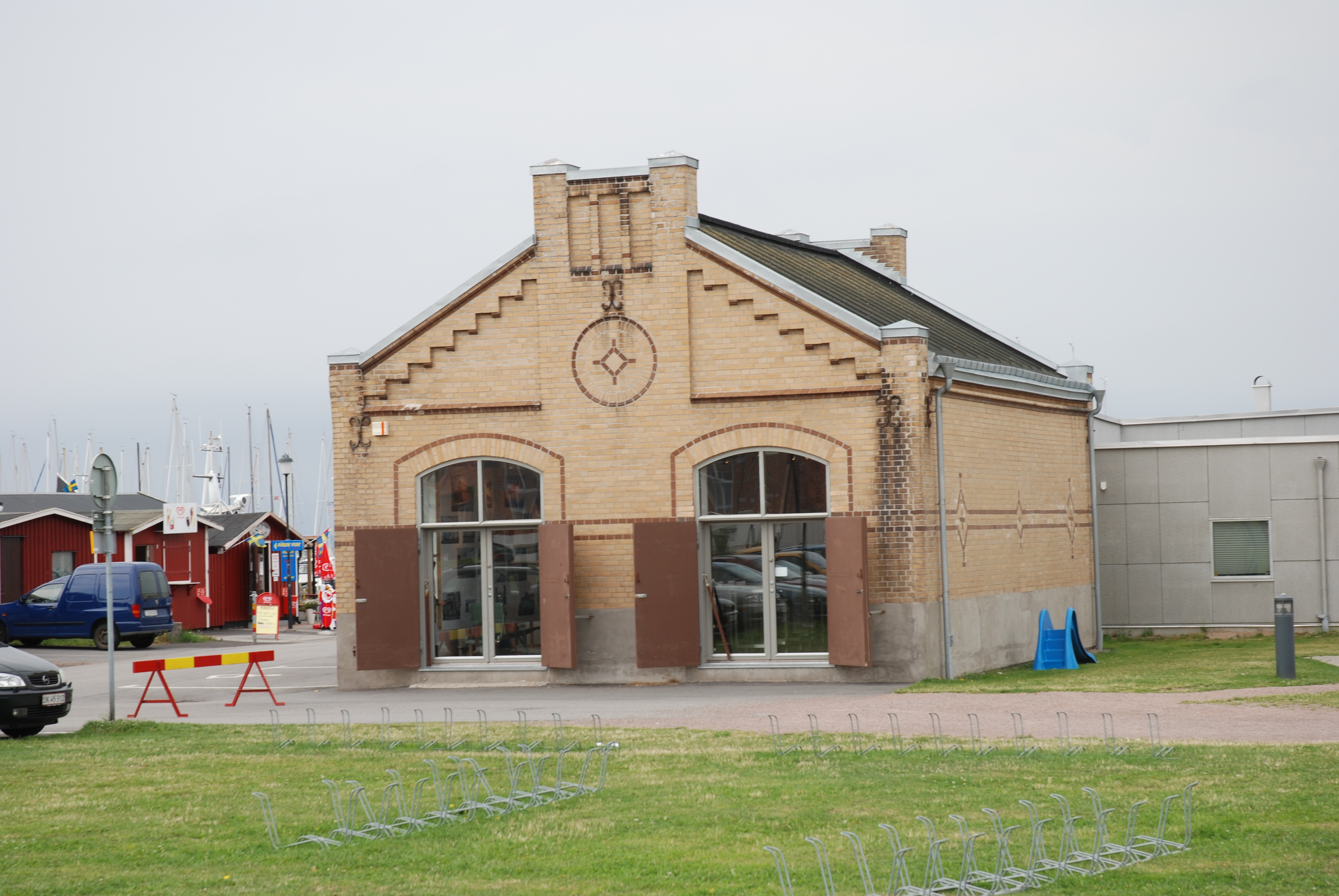 Pumphuset i Borstahusen